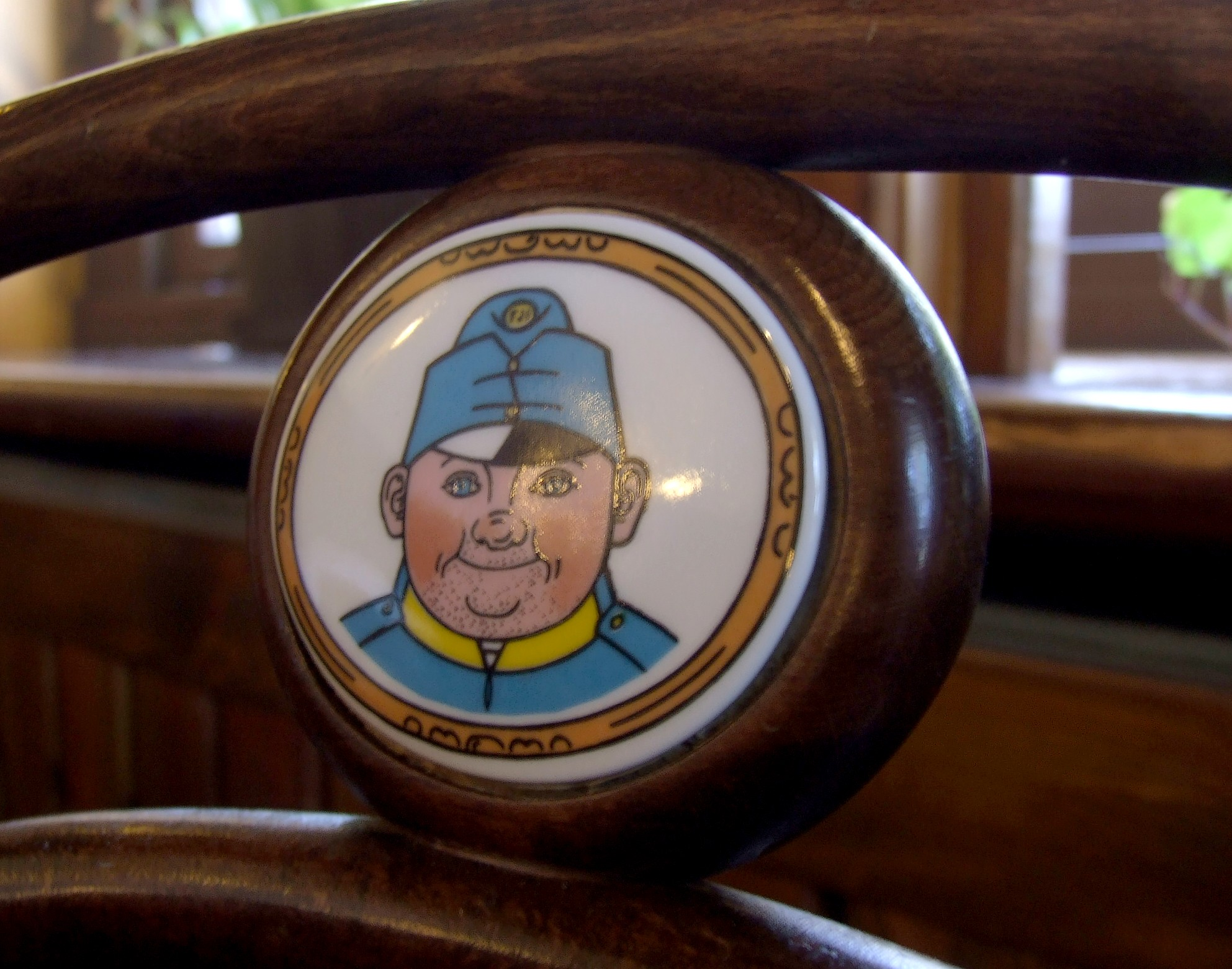 Josef Lada's depiction of Švejk on chair in a pub commemorating Švejk Author: Mohylek 15:45, 2 November 2006 (UTC)